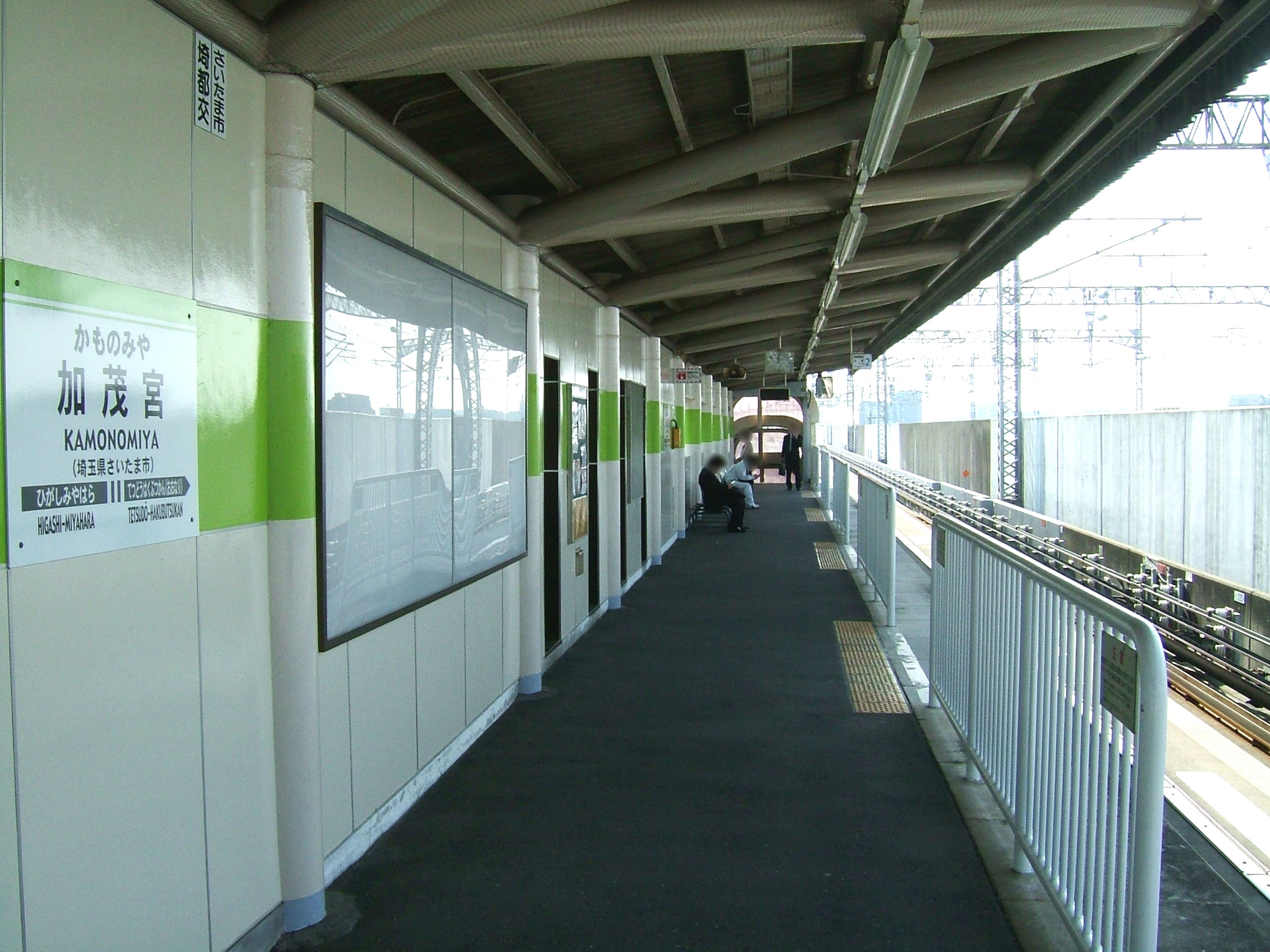 Kamonomiya Station no.2 platform(The "New Shuttle")